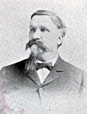 John Kerr Hendrick, US Representative from Kentucky